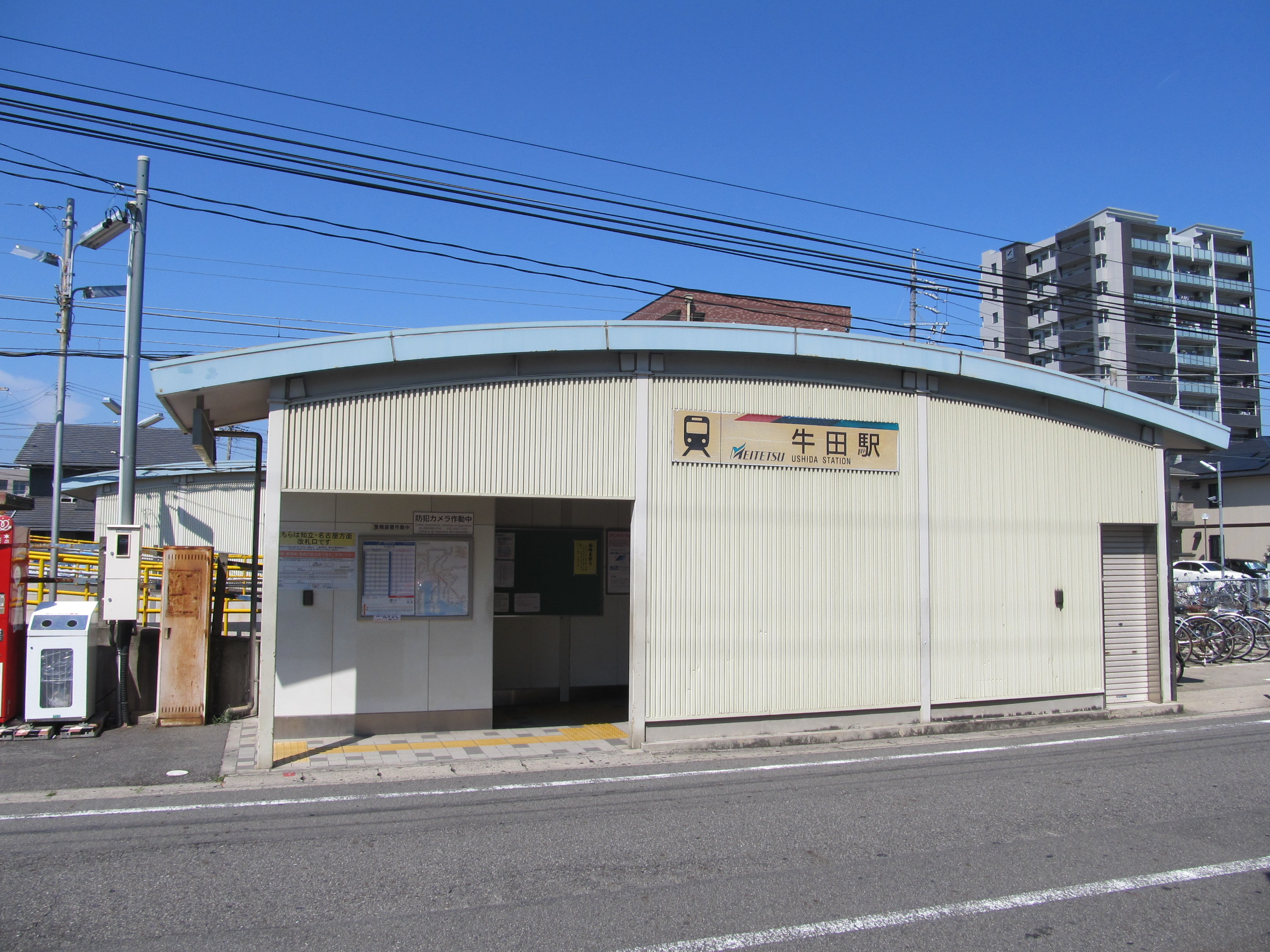 Nagoya Railroad Nagoya Main Line Ushida Station Building (for Nagoya)